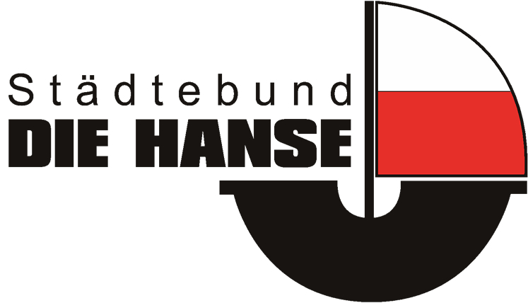 City League The Hanse: logo